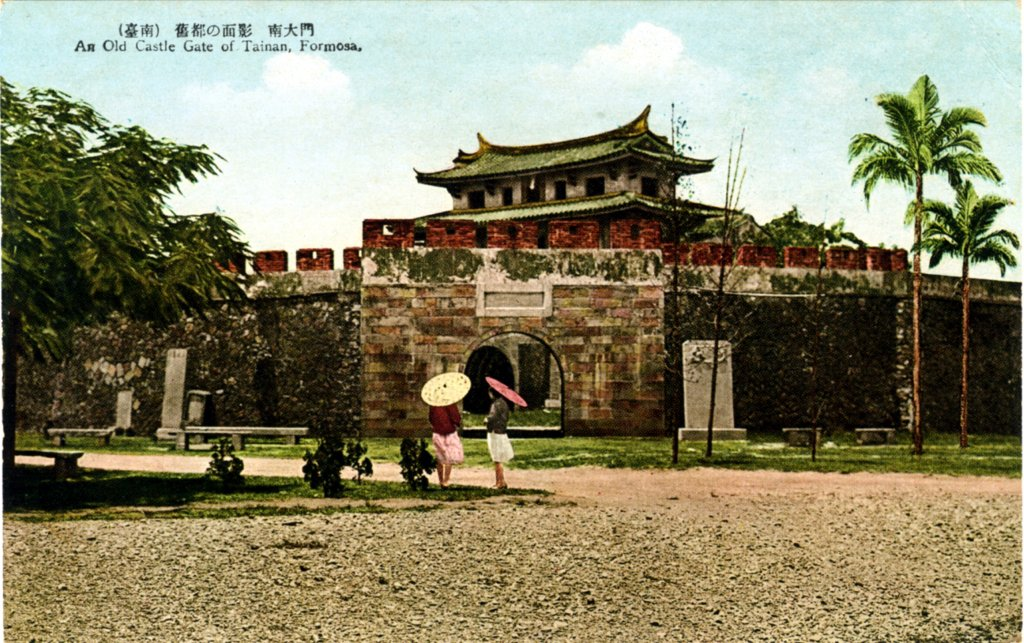 The Southern Gate (南大門) of Old Tainan City